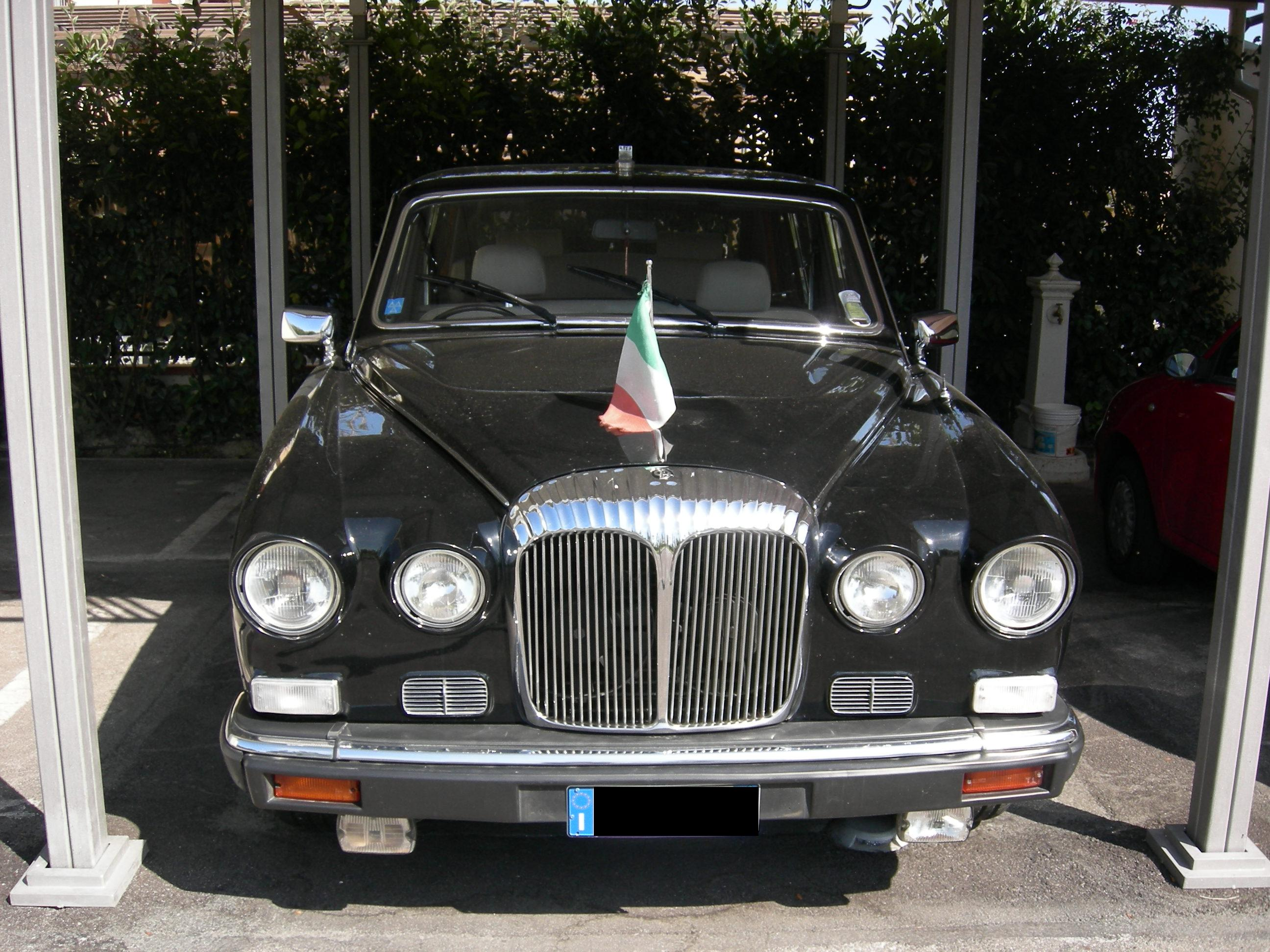 A Daimler DS 420 with blackend front